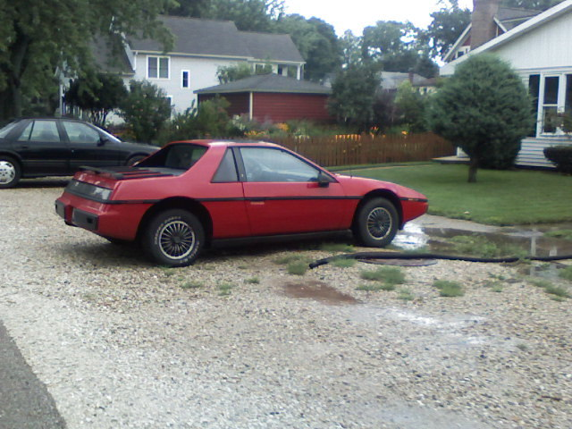 1984 Fiero Coupe.